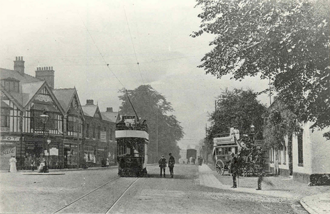 Trams and horse-drawn carriages on Gatley Road, Cheadle, Stockport 1908